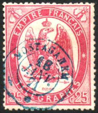 1868 telegraph stamp of France used in 1871.